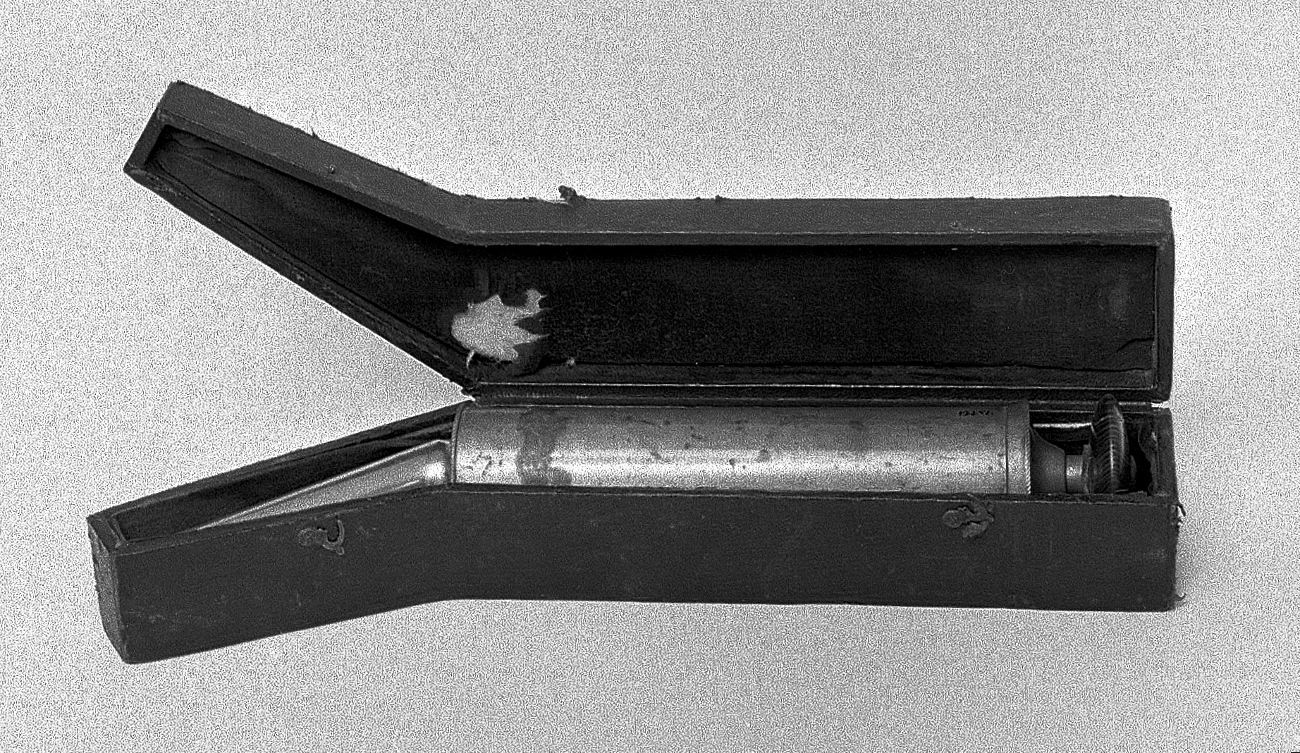 Pewter vaginal syringe in case. Wellcome Images